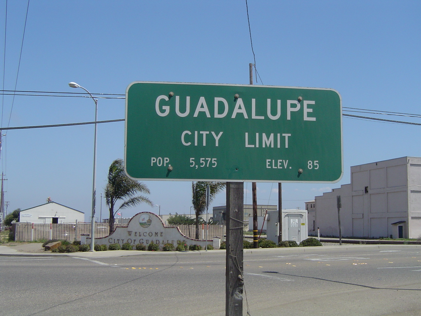 Southern limit of the city of Guadalupe, Santa Barbara County, California, on July 31, 2005.